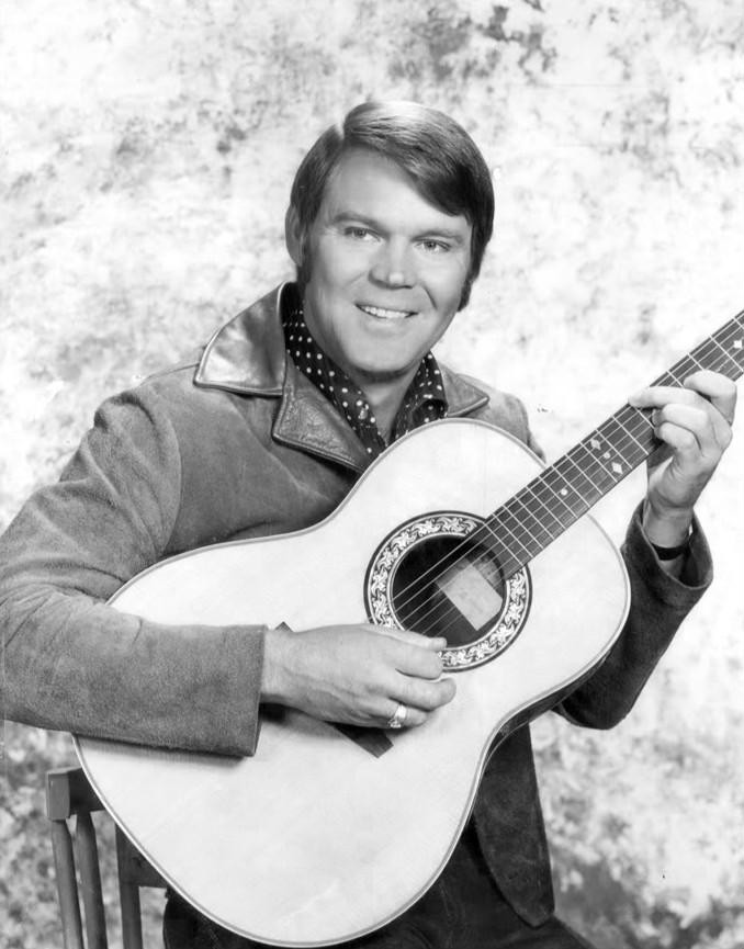 Photo of Glen Campbell from his "Goodtime Hour" television program.